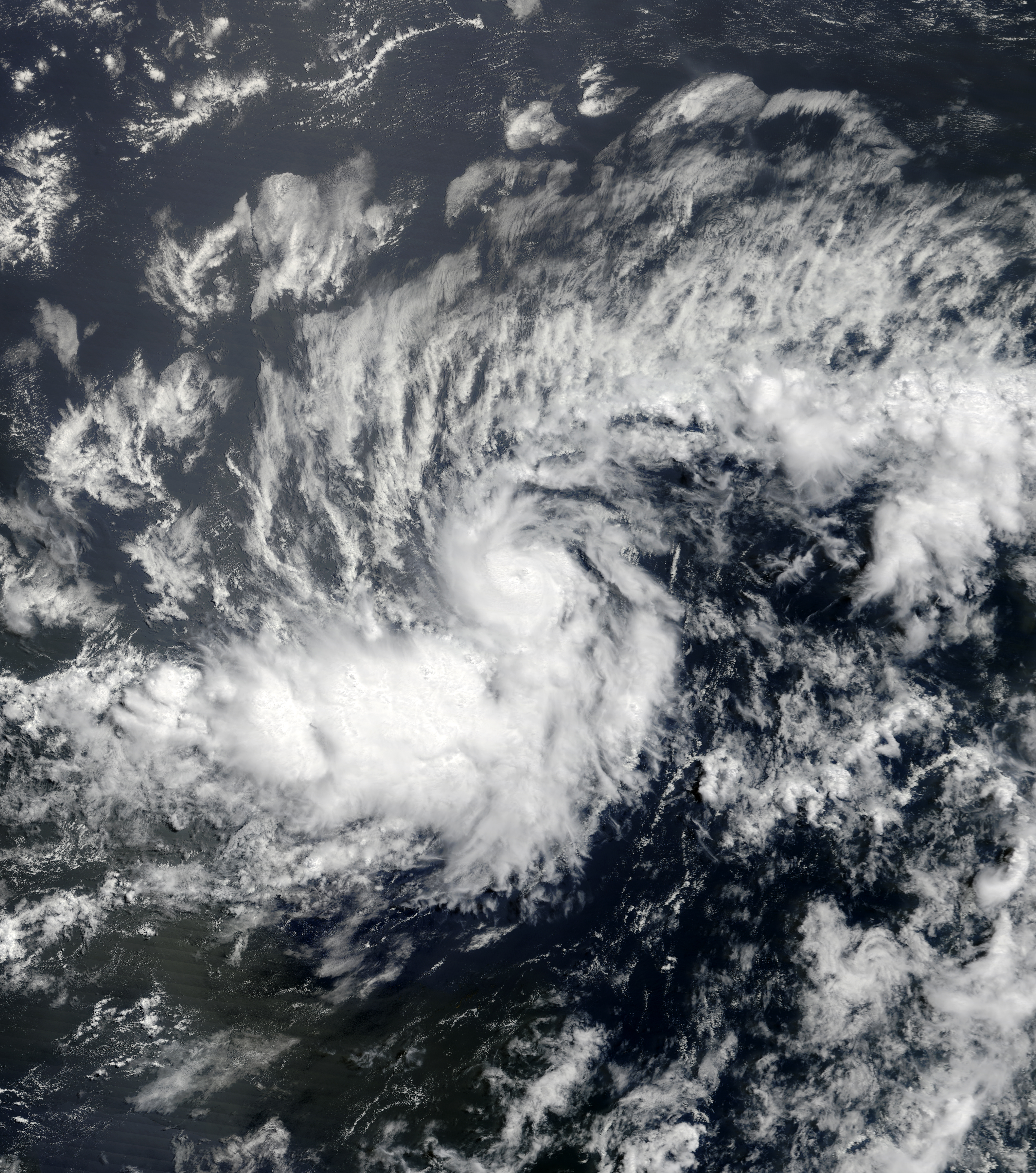 Hurricane Beryl in the eastern tropical Atlantic Ocean on July 6, 2018